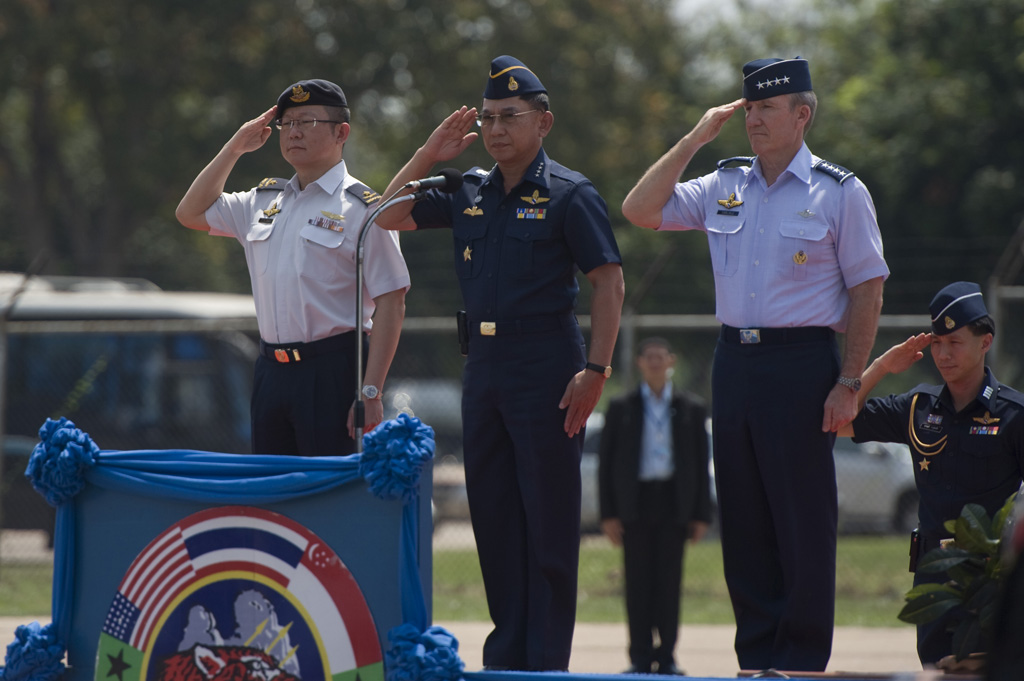 From right to left, Gen. Herbert J. Carlisle, commander of Pacific Air Forces, Commander in Chief of the Royal Thai Air Force Air Chief Marshal Prajin Juntong and Singapore's Chief of Air Force (Designate) Brig. Gen. Hoo Cher Mou, salute during the closing ceremony for Cope Tiger 13 at Korat Royal Thai Air Force Base, Thailand, March 22, 2013. More than 300 U.S. service members are participating in CT13, which offers an unparalleled opportunity to conduct a wide spectrum of large force employment air operations and strengthen military-to-military ties with two key partner nations, Thailand and Singapore. (U.S. Air Force photo/2nd Lt. Jake Bailey)